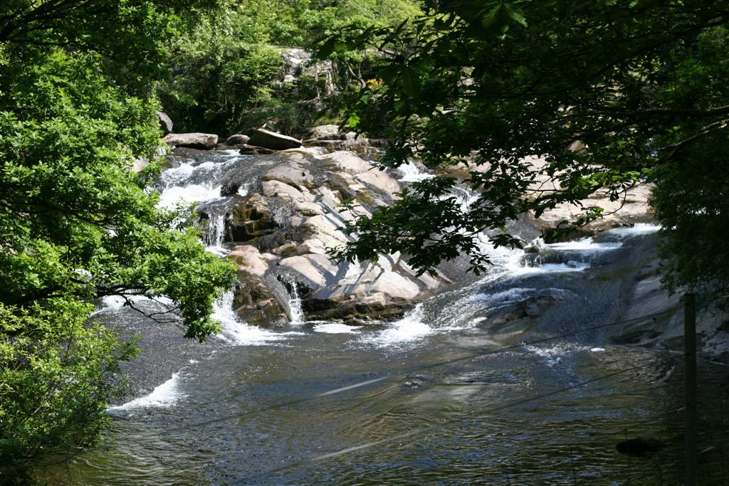 Afon Ogwen uwchben Bethesda River Ogwen above Behesda 05/06/2006 Rhion Pritchard : own work